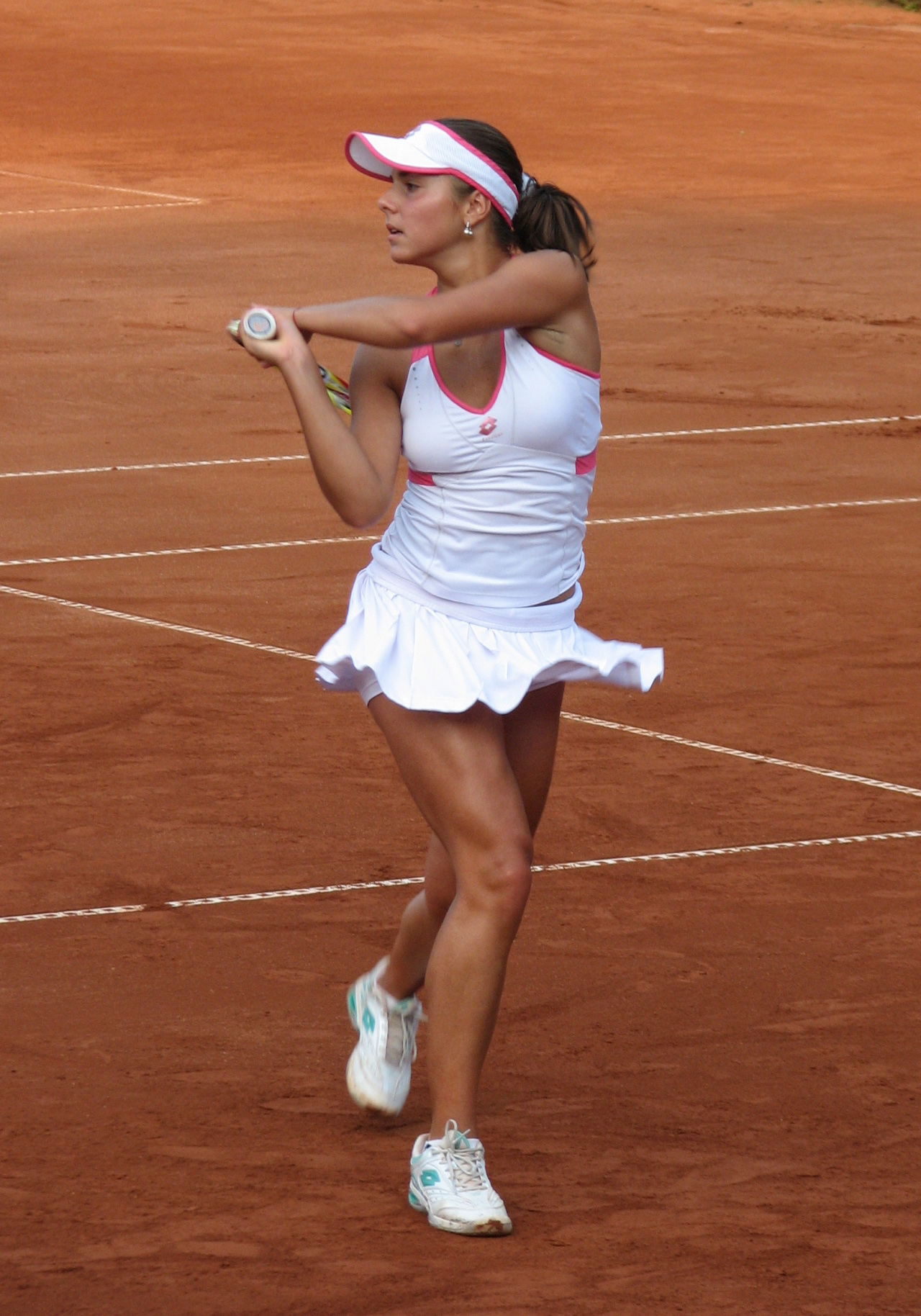 Viktoriya Tomova (Allianz Cup 2009)